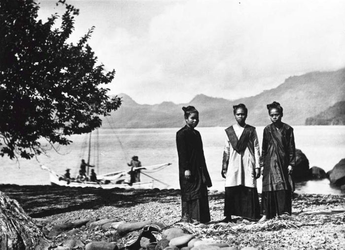 Portrait of three young women at the Sangihe Islands, traditionally dressed